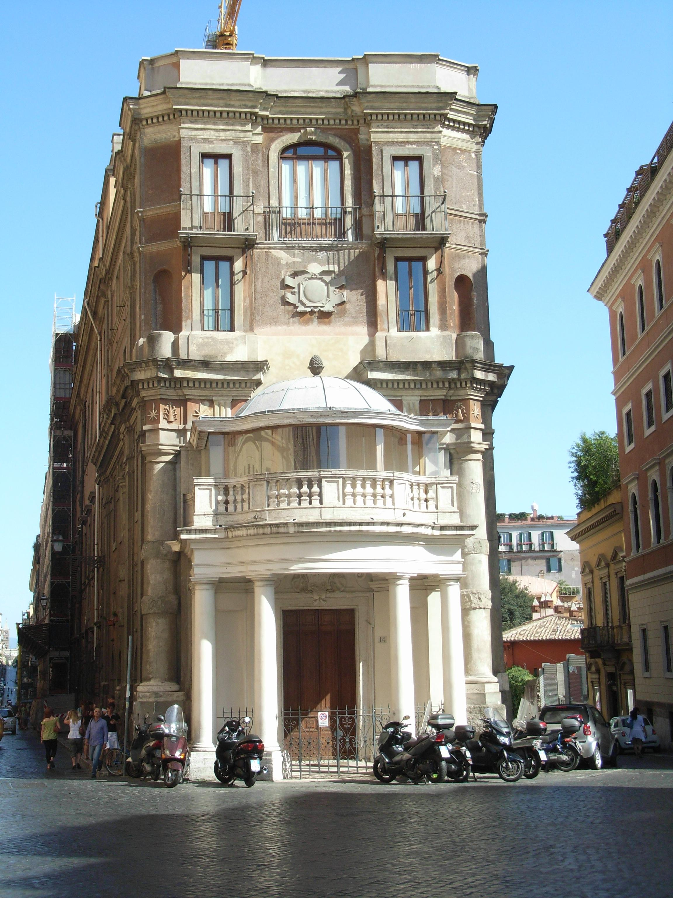 Building Campo Marzio